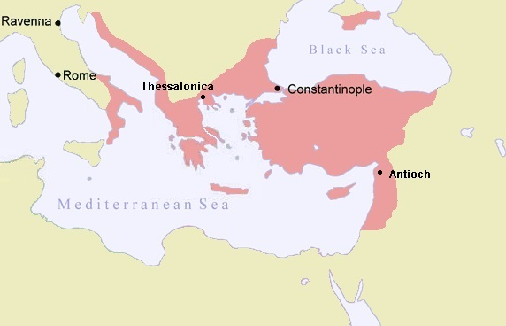 The Byzantine Empire in 975.